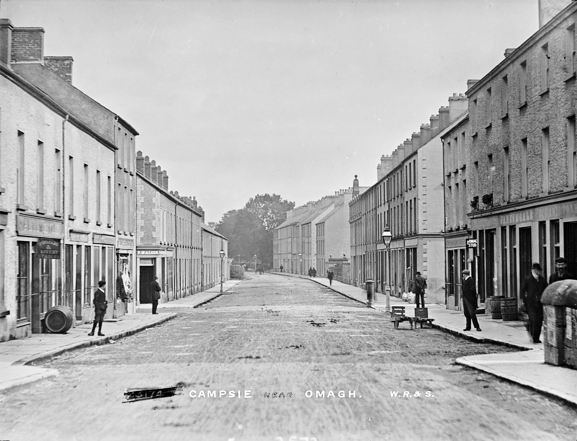 The street is so clear all the locals must have been away at the All-Ireland? Campsie seems a strange name for a street but it appears that, then at least, this street in Omagh was known as Campsie. Interestingly the street is empty apart from pedestrians, a barrel and a couple of handcarts. Photographer: Unknown Collection: Eason Photographic Collection Date: Catalogue range c.1900-1939 NLI Ref: EAS_3573 You can also view this image, and many thousands of others, on the NLI’s catalogue at